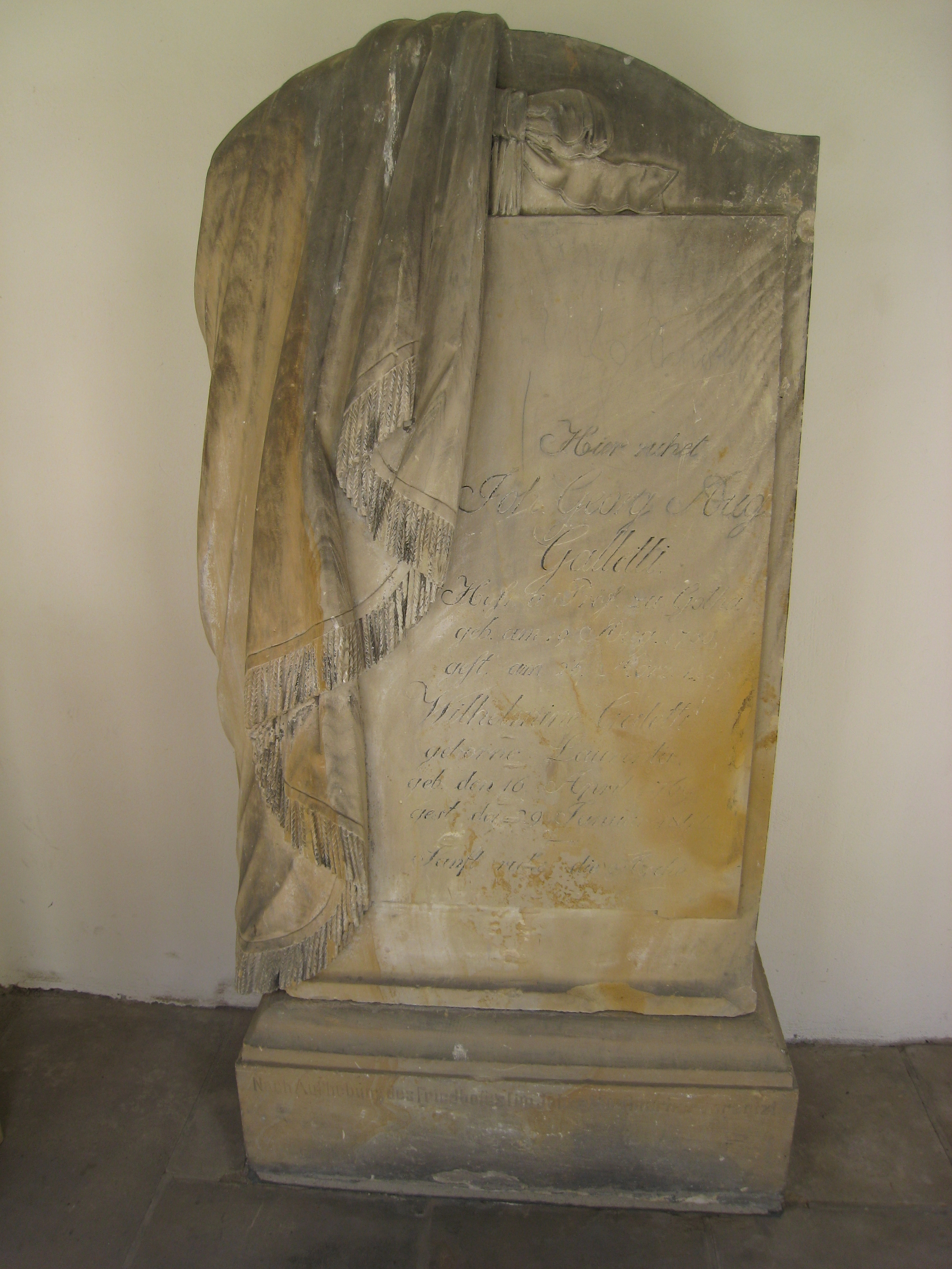 Gravestone Johann Georg August Galletti, Gotha